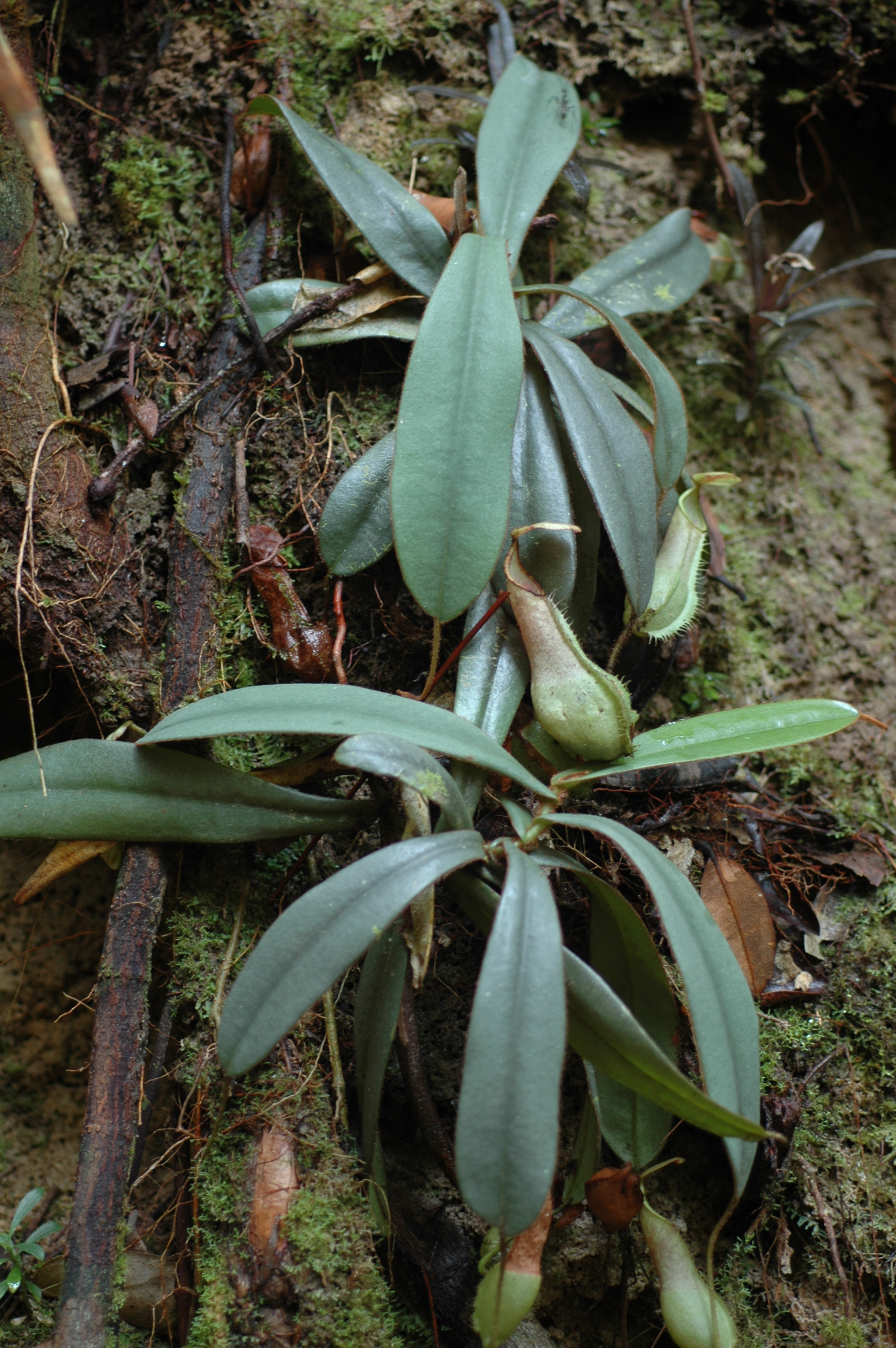 Nepenthes hispida Lambir Hills by Jeremiah Harris